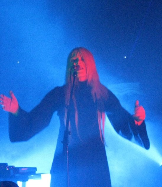 Fever Ray in concert